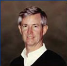 Picture of Ted Dangelmayer shoulders up.